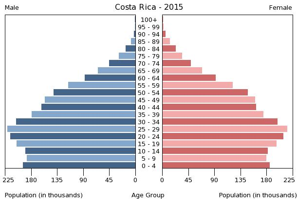 A population pyramid illustrates the age and sex structure of population and may provide insights about political and social stability, as well as economic development. The population is distributed along the horizontal axis, with males shown on the left and females on the right. The male and female populations are broken down into 5-year age groups represented as horizontal bars along the vertical axis, with the youngest age groups at the bottom and the oldest at the top. The shape of the population pyramid gradually evolves over time based on fertility, mortality, and international migration trends.